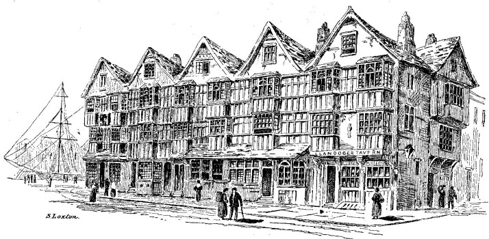 A view of King Street in Bristol, late nineteenth century by Samuel Loxton (1857-1922). The two houses at the left were destroyed by bombing during World War II, the remaining three are now the Llandoger Trow public house